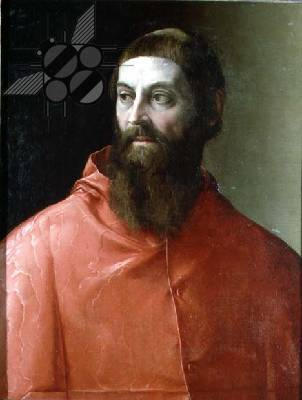 Rodolfo Pio da Carpi